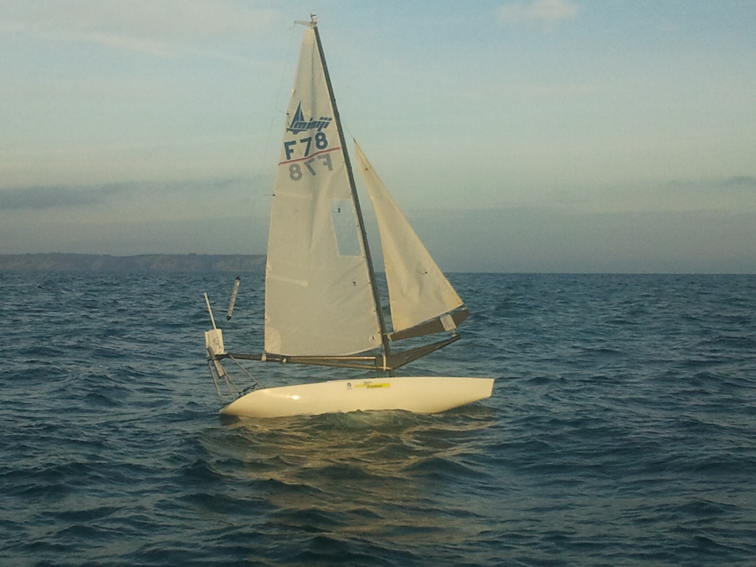 Vaimos during its autonomous mission between Brest to Douarnenez (more than 100 km)